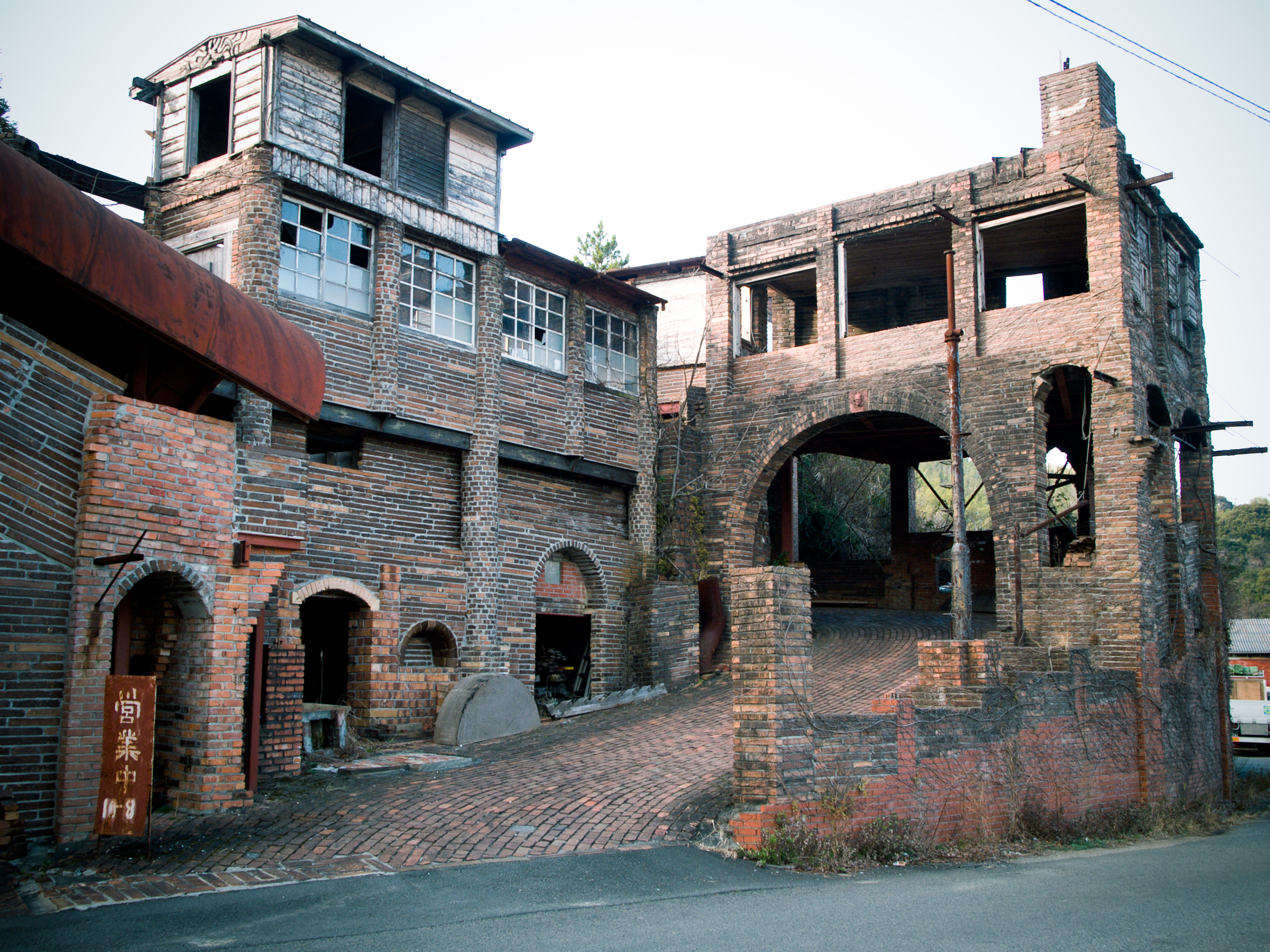 Daibosatsu-Toge (Cafe), OLYMPUS DIGITAL CAMERA